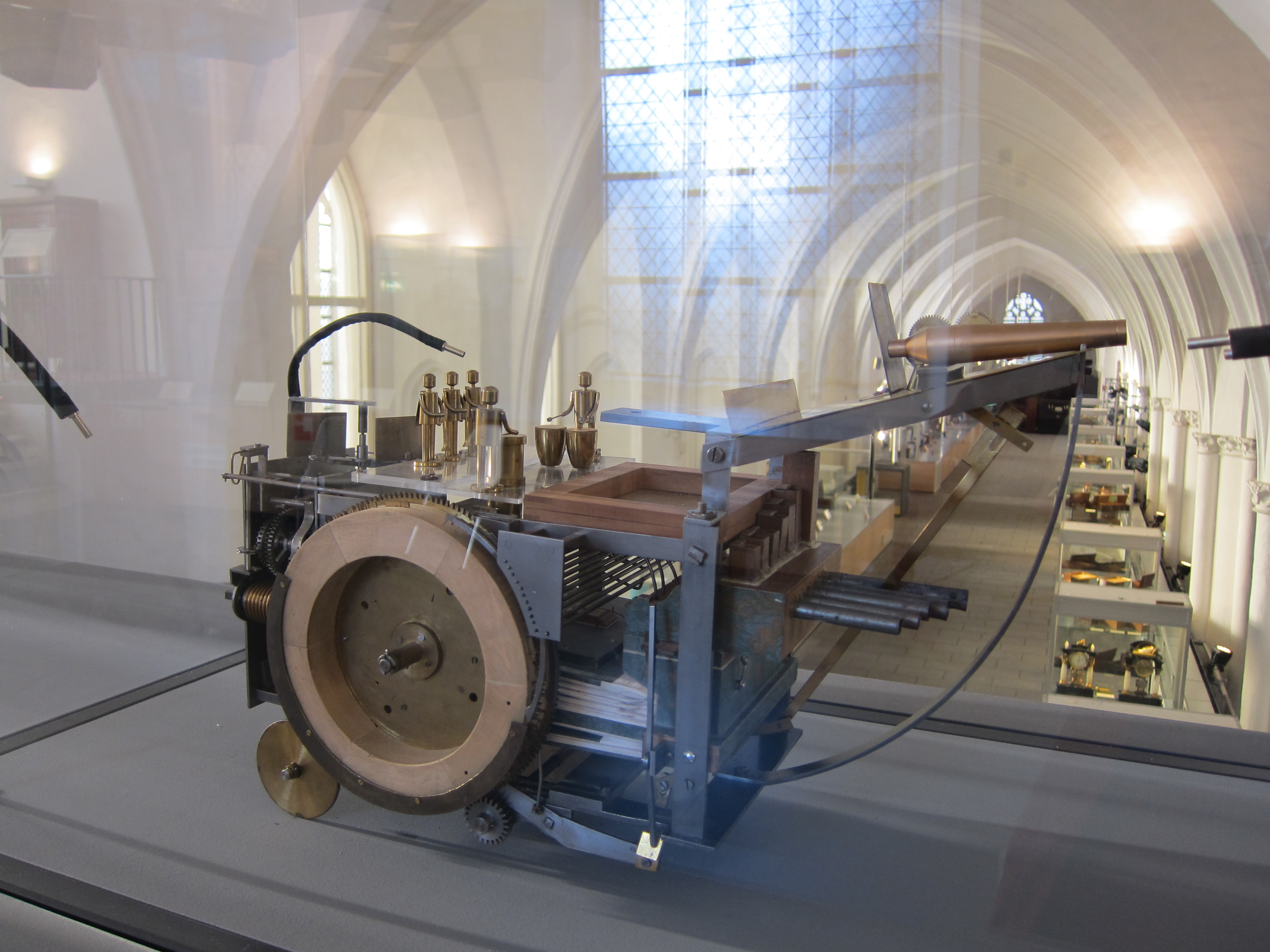 This is a reproduction of a renaissance table piece, because the originals are too delicate. According to the label, the cannon will fire. I. Hammond "Working model" van een renaissance schip met speelwerk (1999, reproduction)[1] “Ship with organ, vessel reconstruction Schlottheim table. Essential Functions: surging progress, set start time, trumpet / timpani music, flute / drum music, cannon shot with bang / smoke. Started as a Hammond / Reels project completed ( 98- 99) help to Euronefexpo in Ecouen, Musée de la Renaissance, France (Sept. 99, March 2000). 12-key. Range: trumpets (shelving) d '-a d '-e-tt-g-a '. flutes: d-efg-a '3 trumpet-up keys, 2 timpani keys (D, A).” References ↑ Working model van een renaissance schip met speelwerk - National Museum from Musical Clock to Street Organ of Museum Speelklok. the Memory of the Netherlands (het Geheugen van Nederland). National Library of the Netherlands.